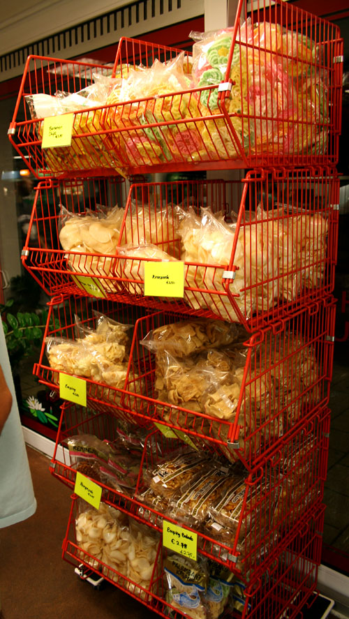 Assorted types of 'Krupuk' (Dutch: Kroepoek), deep fried Indonesian crackers made from starch and taste giving ingredients, such as Prawn or Crab, on display and for sale in one of the many Indo (Dutch-Indonesian) Tokos in Amsterdam, The Netherlands, 2011.